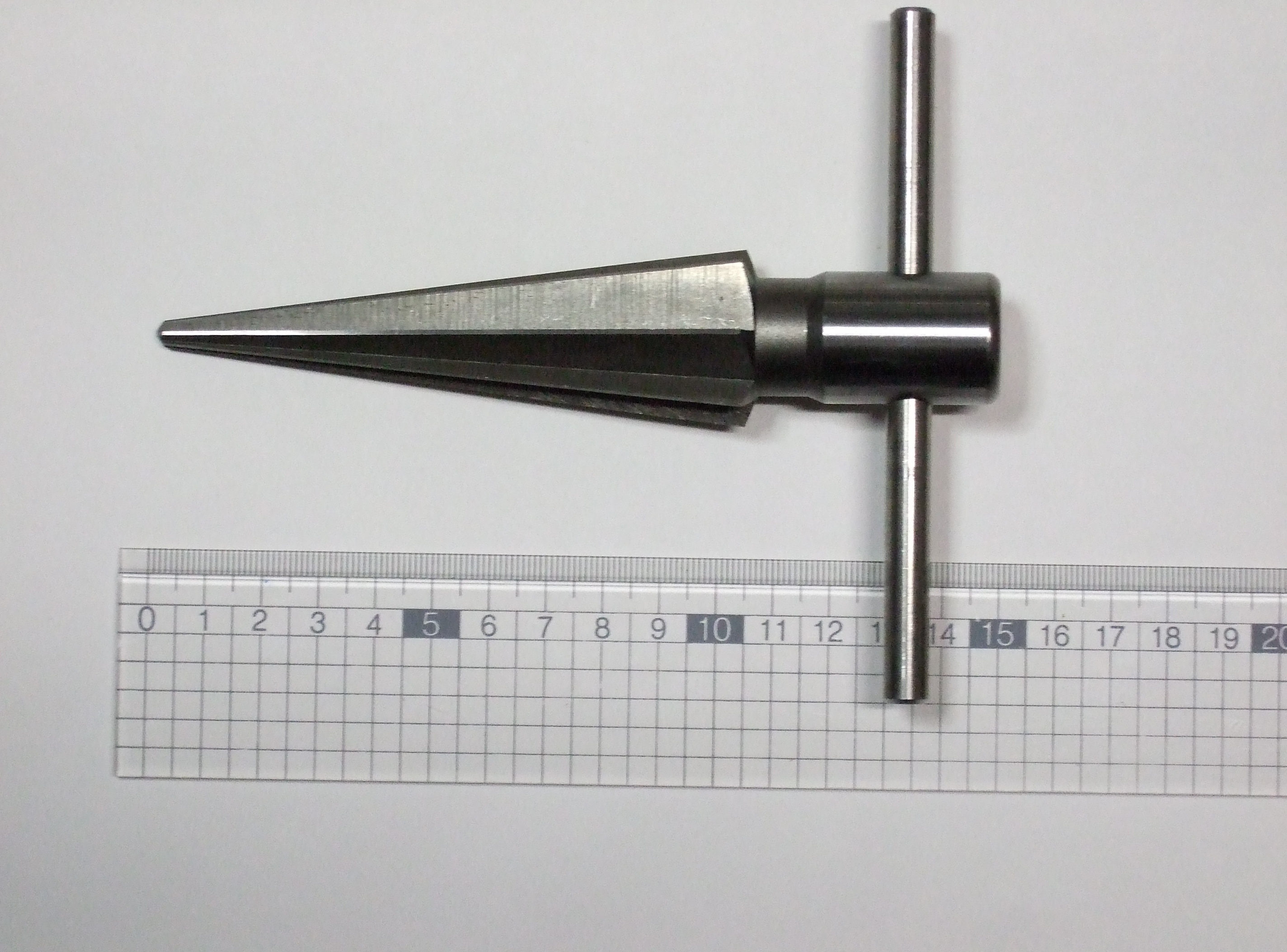 Taper reamer (K-444. Applicability: 4 - 32 mmø. Made by Hozan Tool Industrial Co., Ltd. Osaka, Japan)